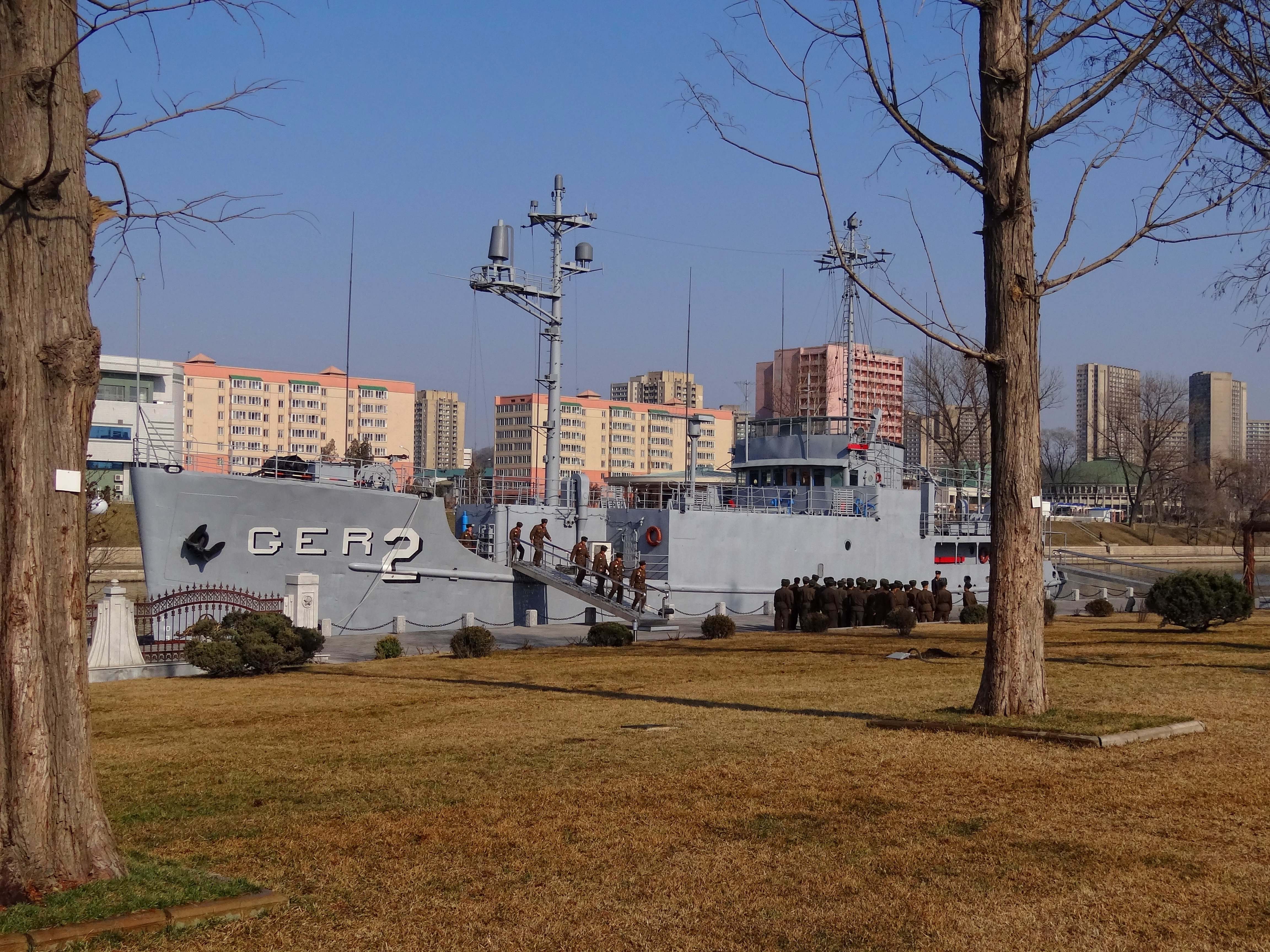 USS Pueblo (AGER-2) is an American technical research ship (Navy intelligence) that was boarded and captured by North Korean forces on 23 January 1968. It is now on display at the Victorious Fatherland Liberation War Museum in Pyongyang, North Korea.